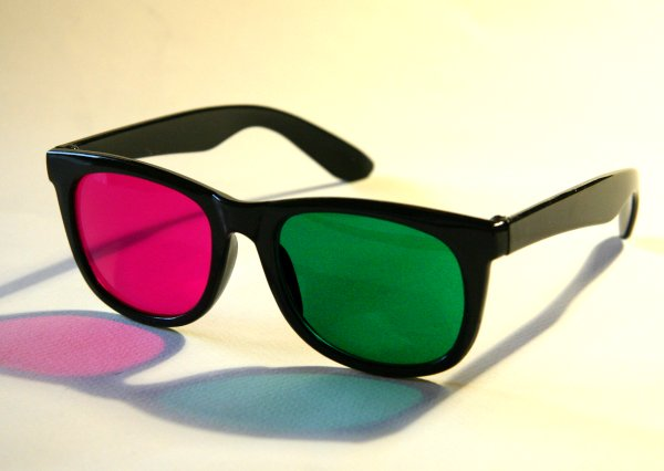 Stereoscopy green magenta glasses